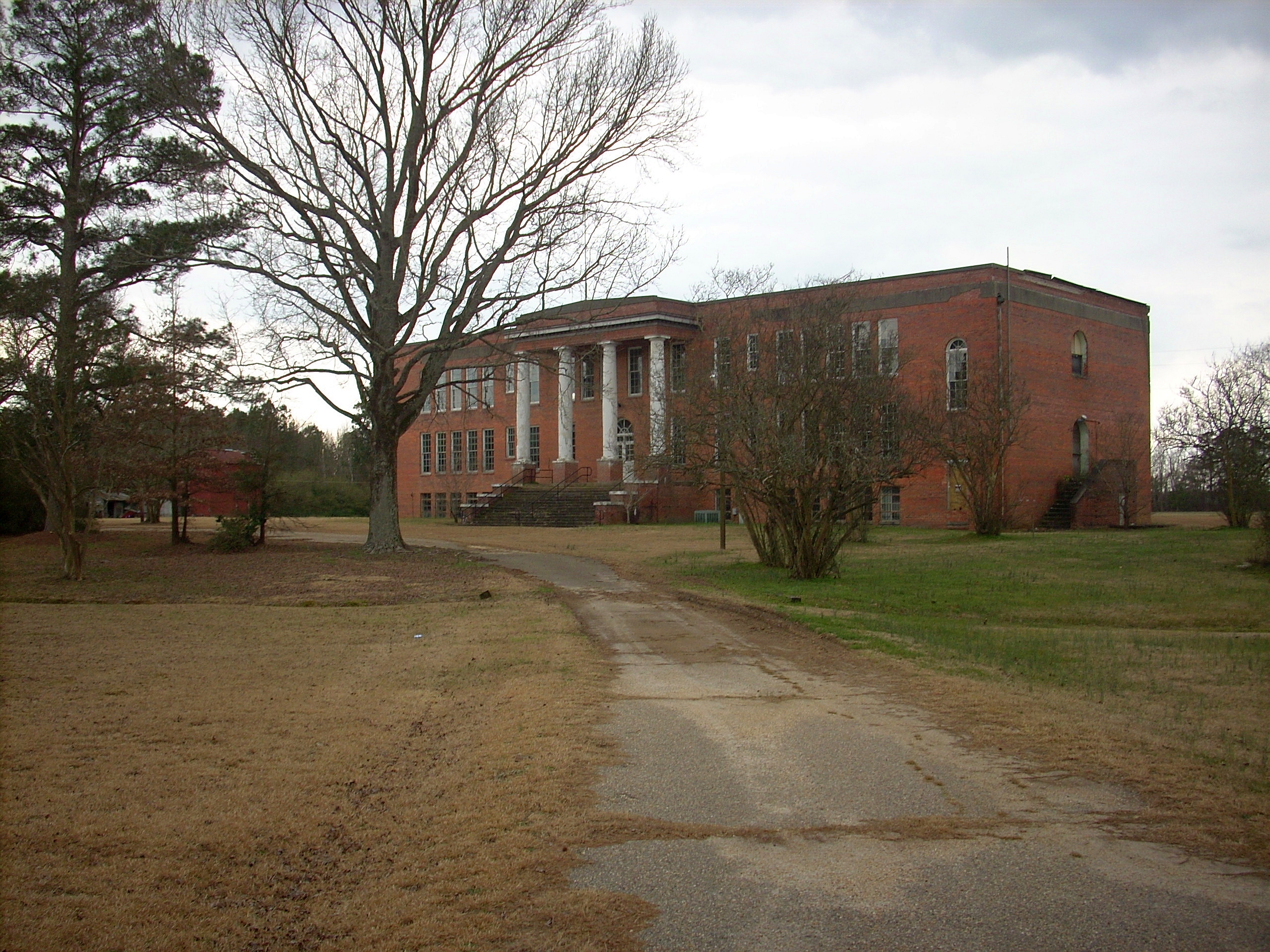 Linden, North Carolina this is an abandoned school. I am not sure if it was an elementary school or a high school or perhaps it was K-12.